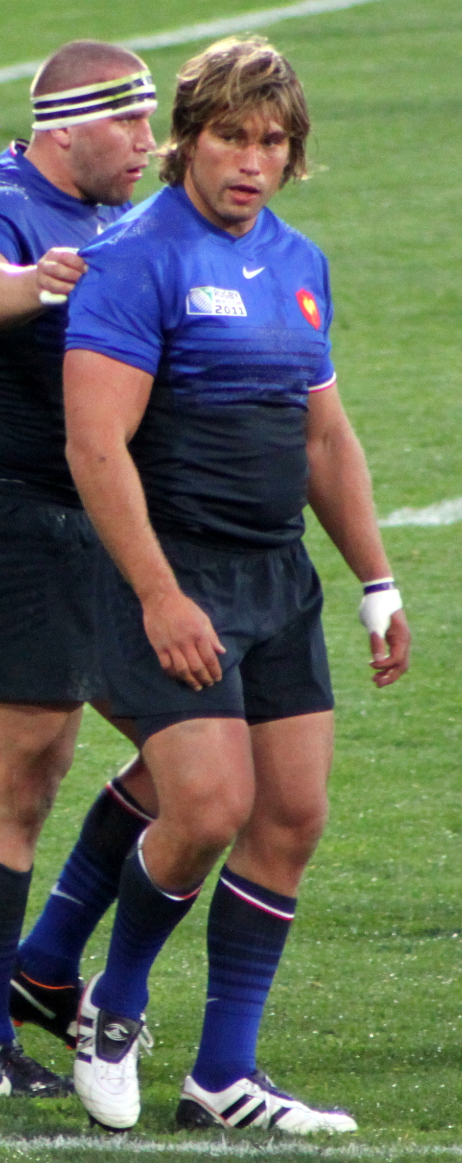 French rugby union player Dimitri Szarzewski during 2011 Rugby World Cup match against Tonga.